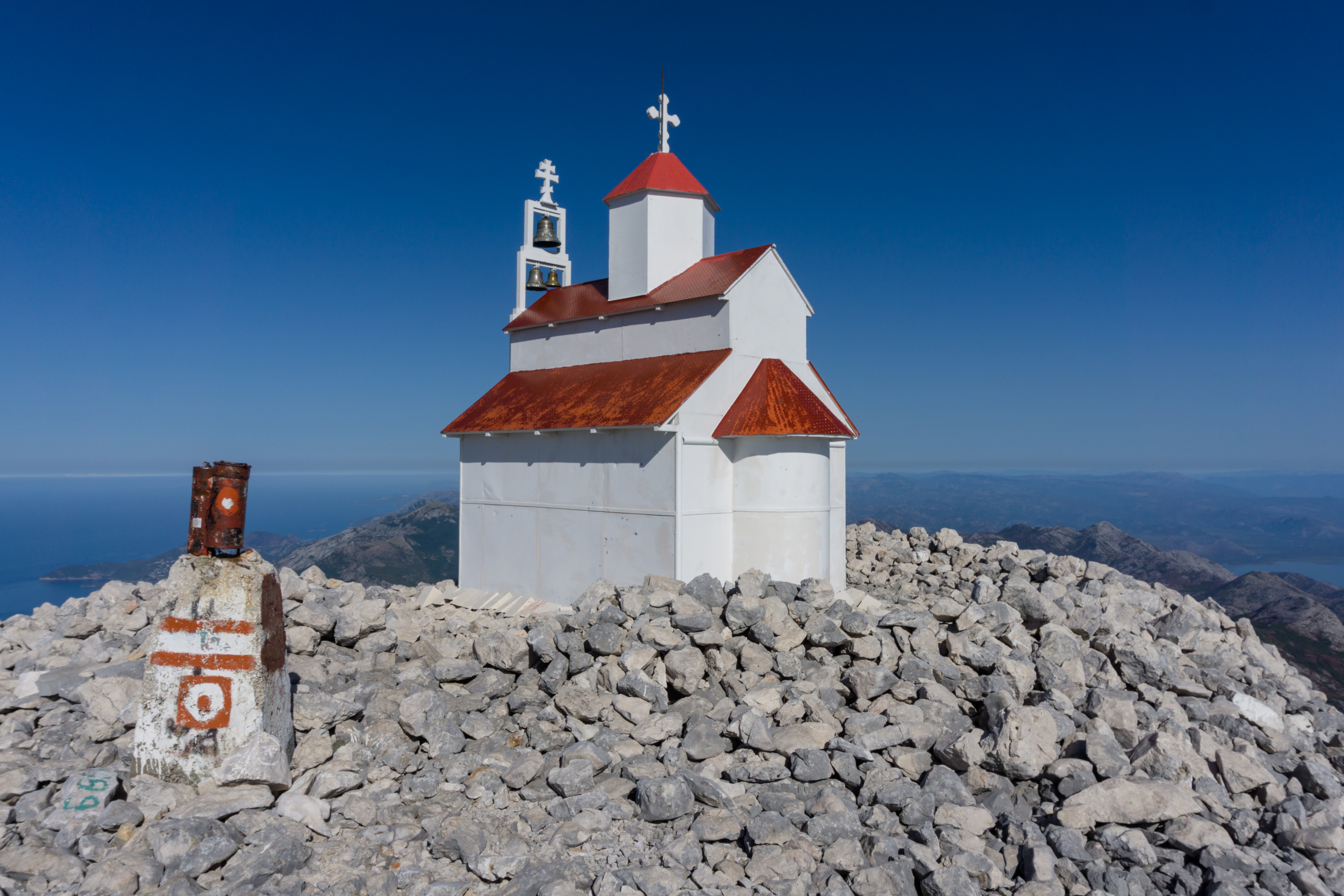 A picture taken during hiking the Primorska Planinarska Transverzala (PPT; Mountaineering Coastal Transversal) in Montenegro